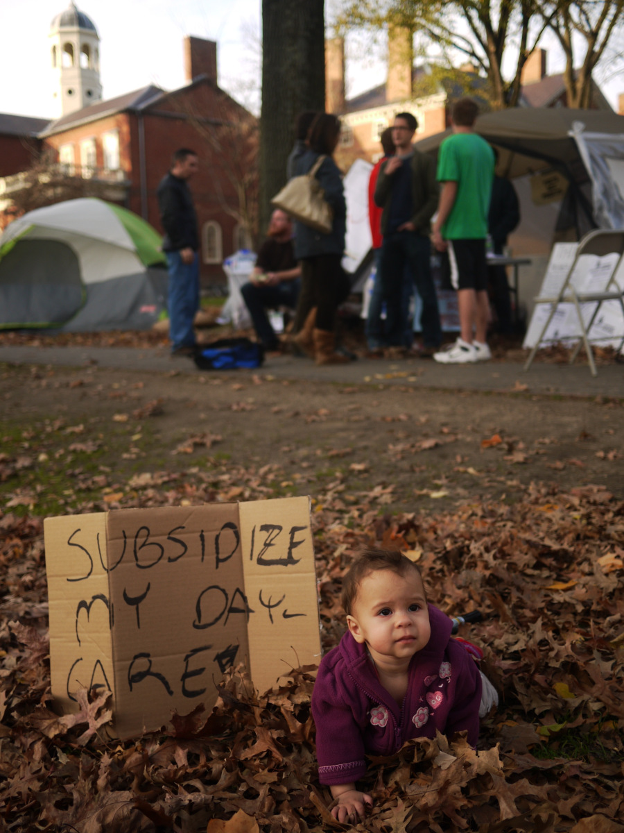 Child with day care sign at Occupy Harvard